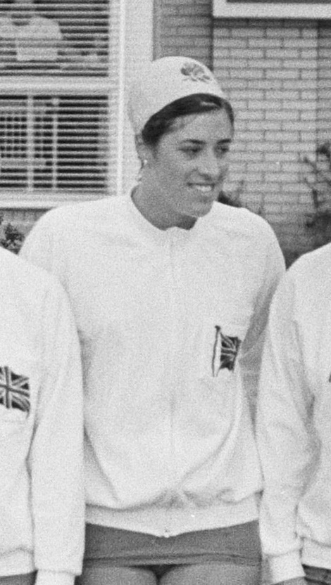 4x100 m medley podium, 1966 European Championships Diana Harris